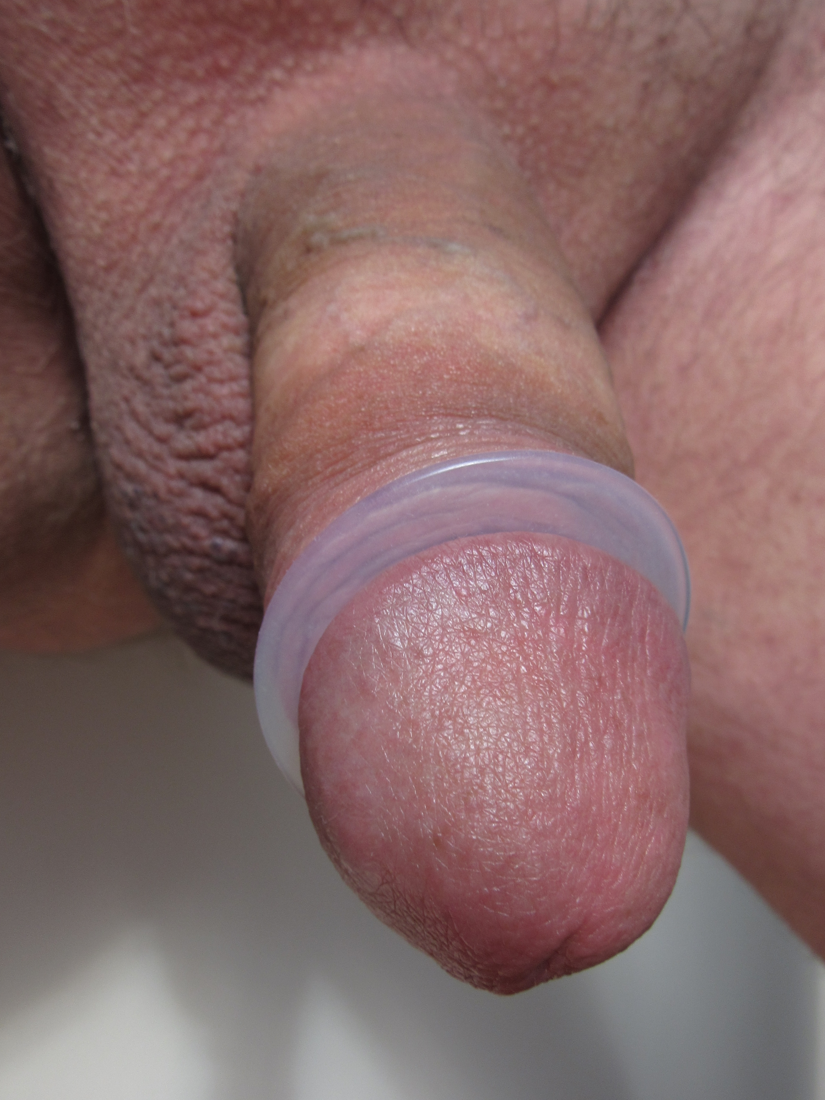 Uncircumcised penis with foreskin retaining device